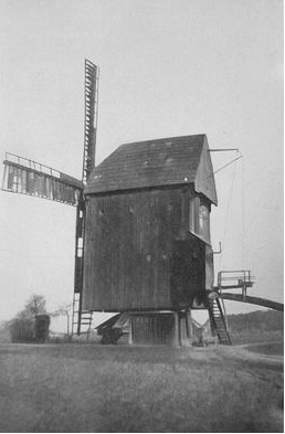 Wind Mill in Kochstedt near Dessau before 1945